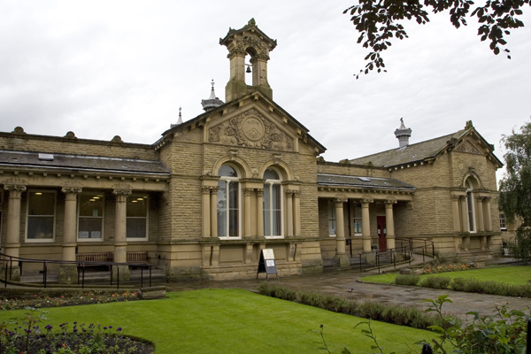 Originally Salt Grammar School, Saltaire Now part of Shipley College.